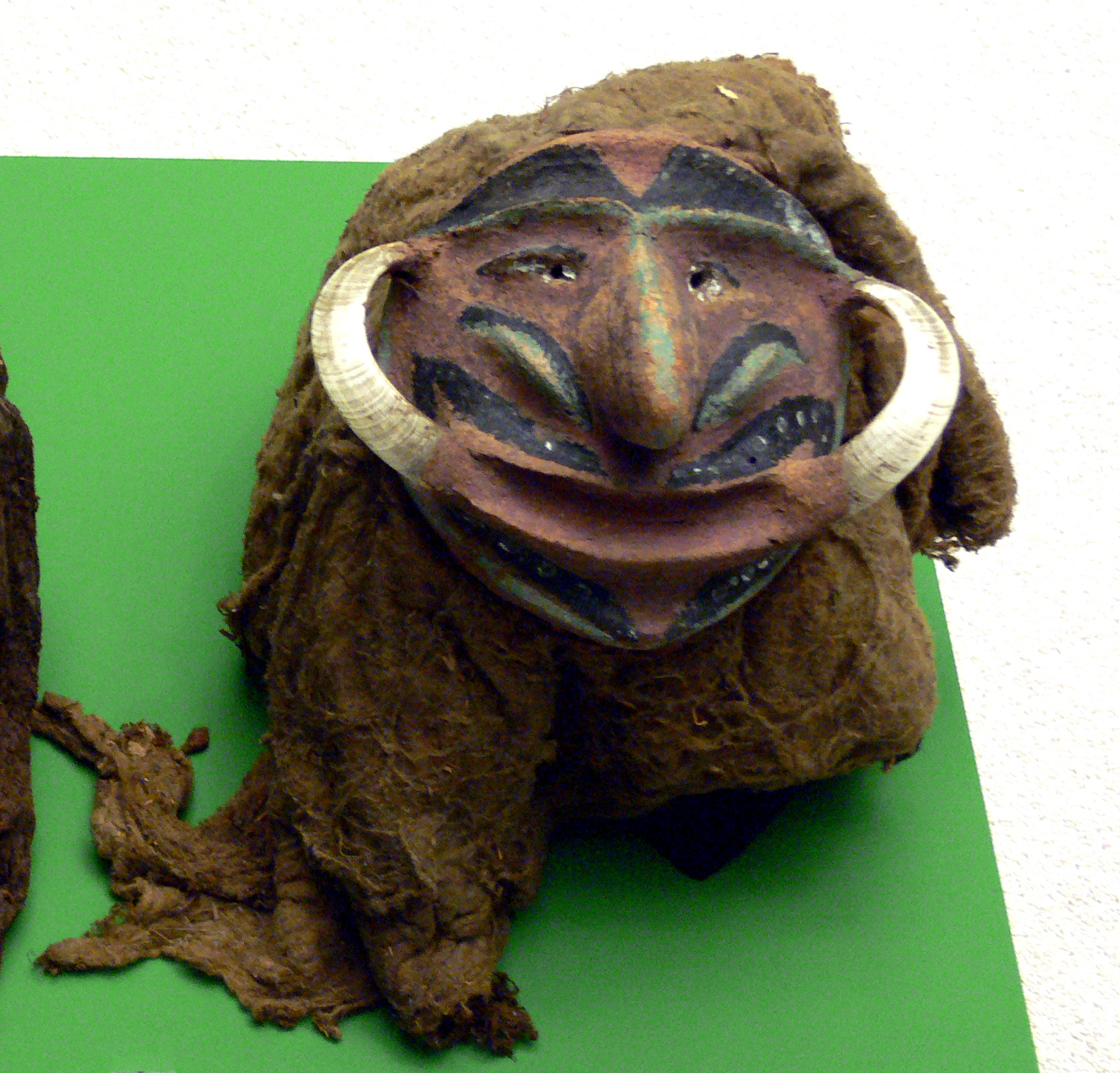 Mask from Malakula, Vanuatu; South Seas Department, Ethnological Museum, Berlin, Germany (Lemaire collection, 1968)